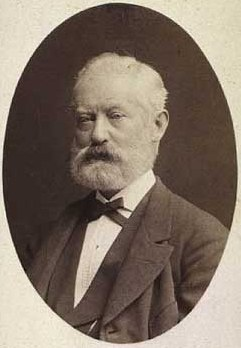 Christian Holm (1807-1876), Danish merchant and industrialist